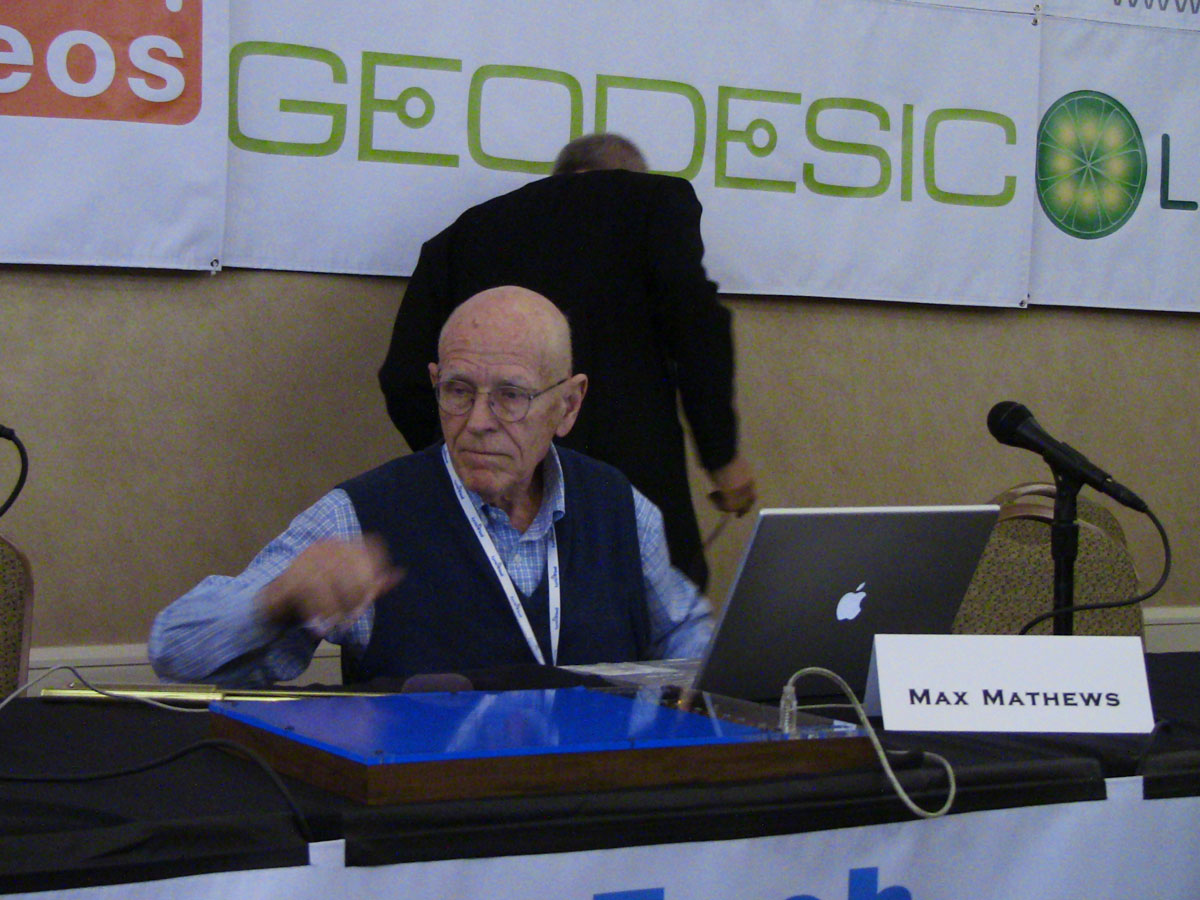 Max Mathews SF MusicTech Summit, May 17, 2010